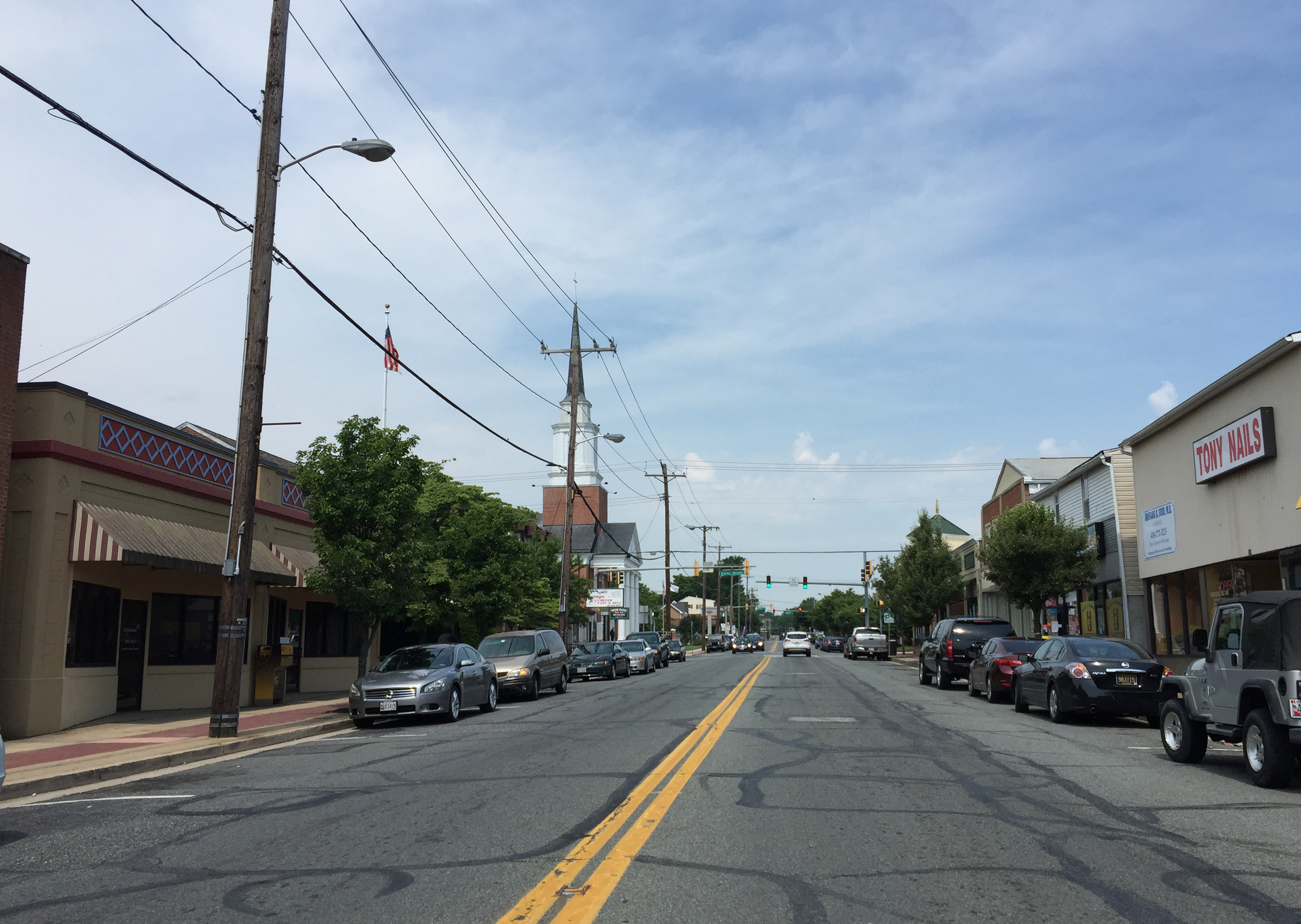 View west along Maryland State Route 132 (Bel Air Avenue) at Howard Street in Aberdeen, Harford County, Maryland